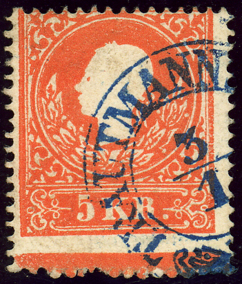 Austrian KK 5 kreuzer stamp, issue 1858 (type I), with André-cross below, blue cancelled in TRAUTMANNSDORF, Mueller 25x2 Points